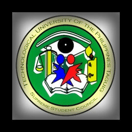 TUP Taguig campus SSC logo